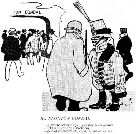 The illustration that provocated the "incidents of the Cu-Cut"